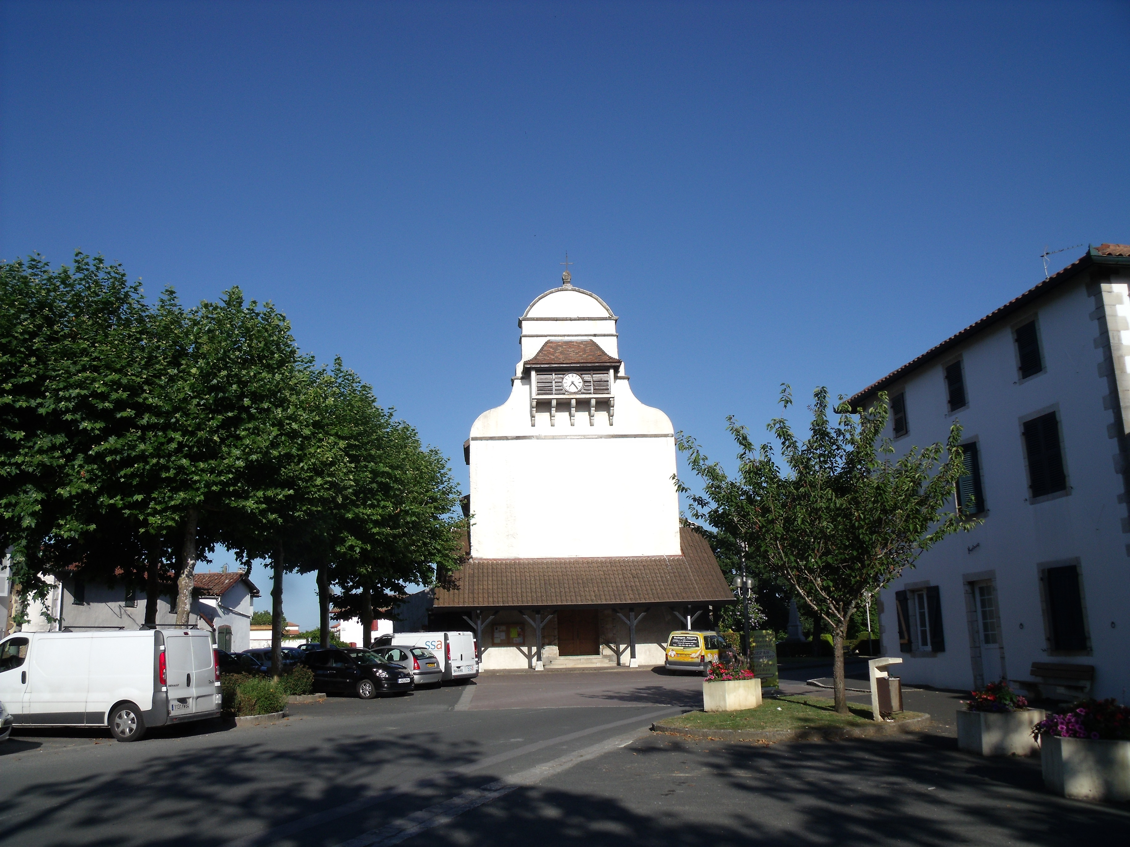 Urt church.